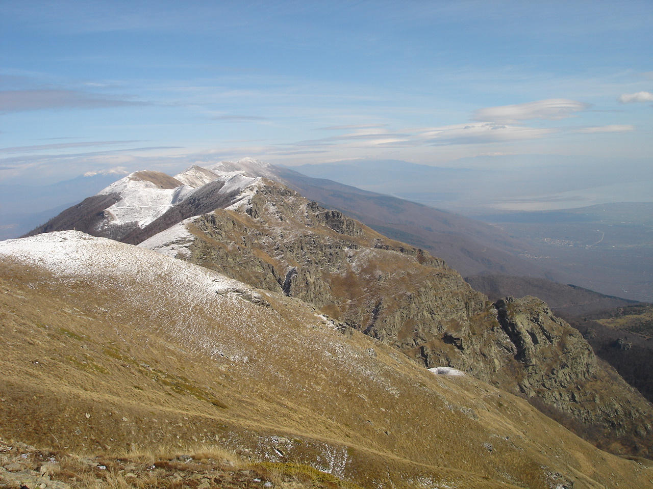 Belasica mountain, Macedonia